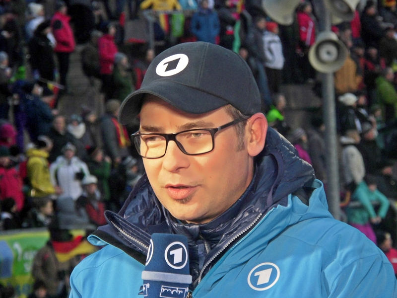 Matthias Opdenhövel at the 2015 World Ski Jumping in Klingenthal